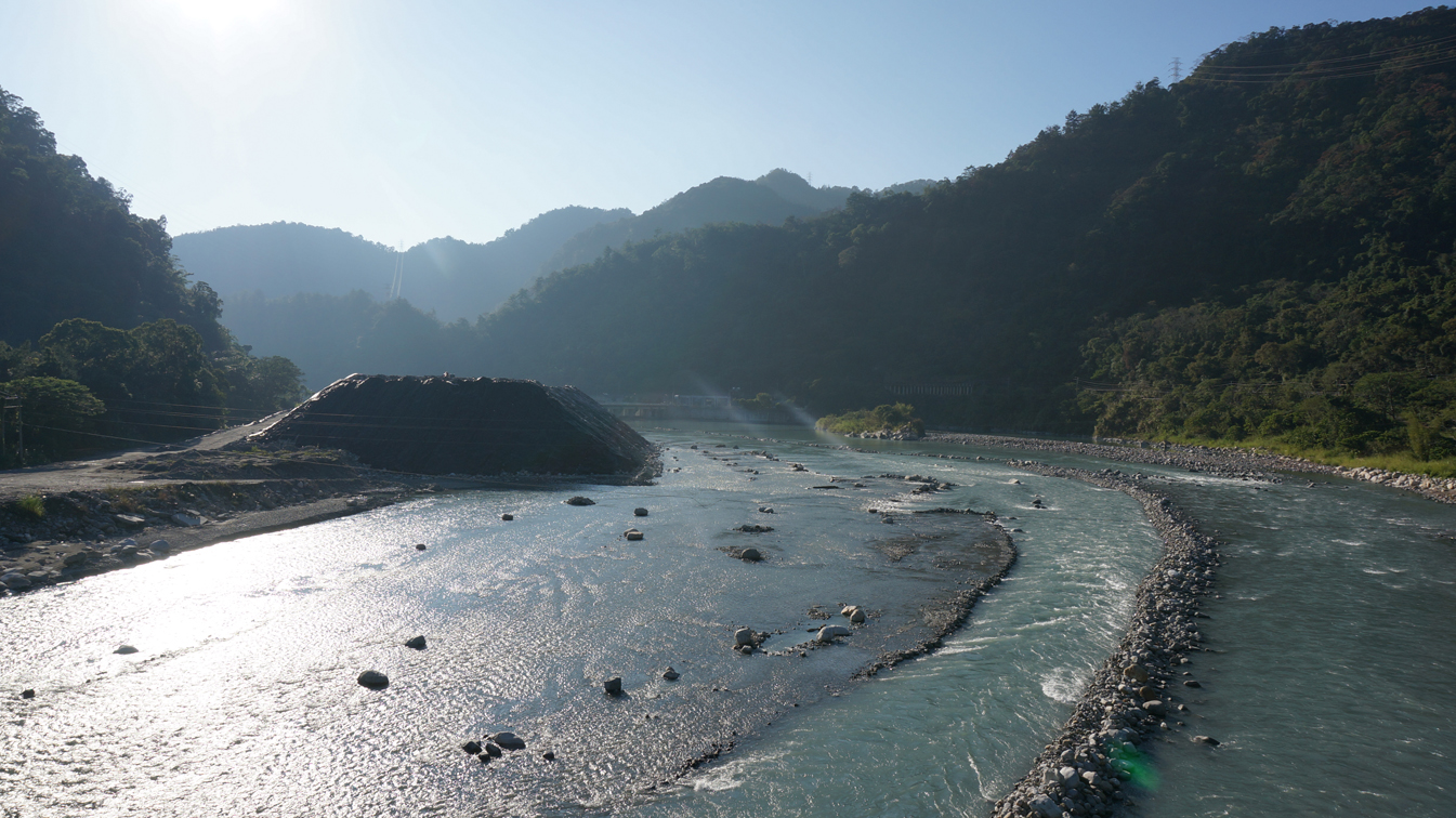 Dajia River中文（台灣）: 大甲溪上游